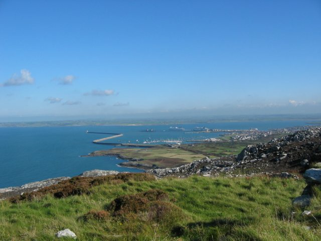 Holyhead Harbour from the Telegraph Station. View over Holyhead Harbour to Anglesey from the old Telegraph Station.